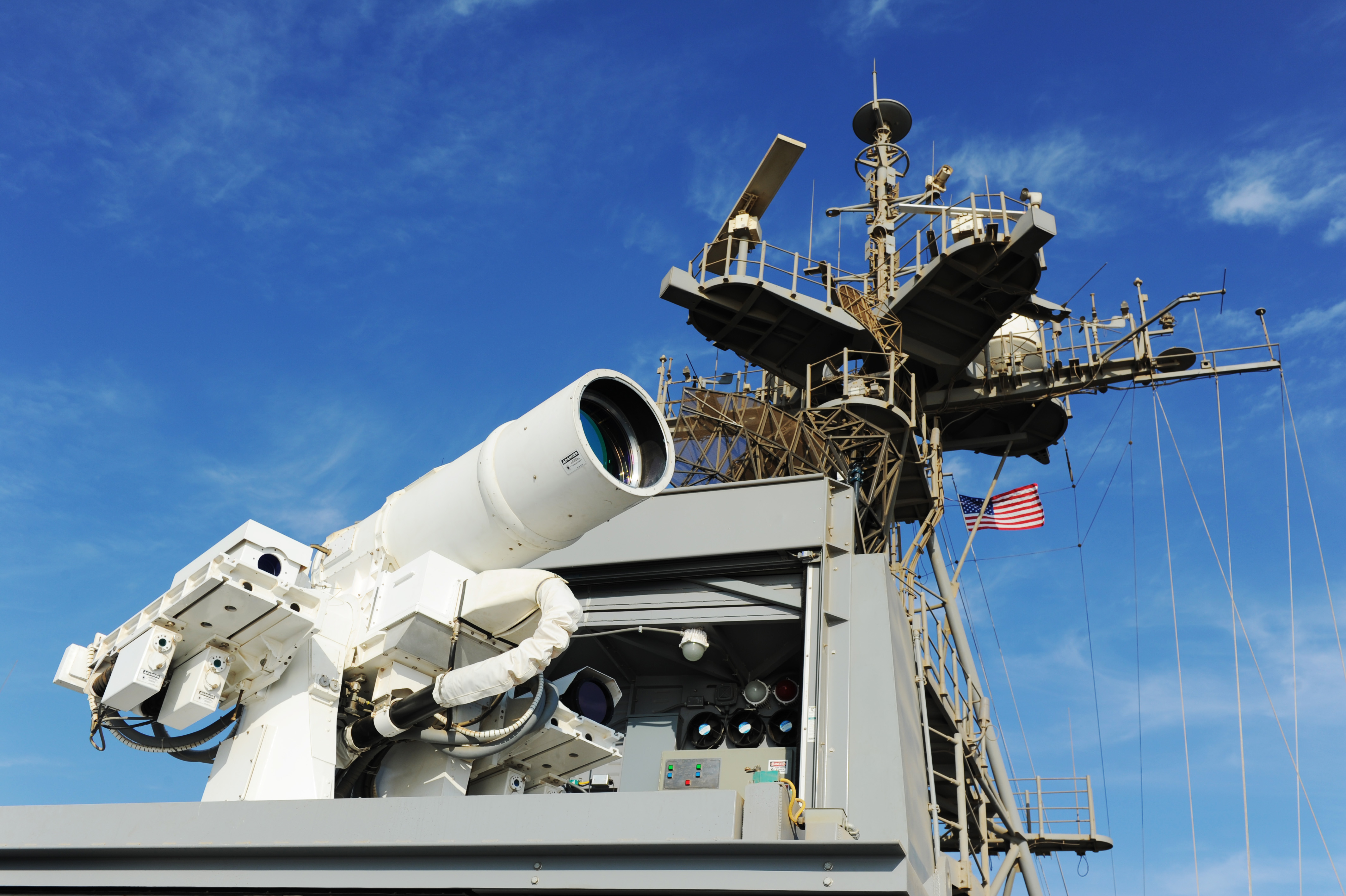 The U.S. Navy Afloat Forward Staging Base (Interim) USS Ponce (AFSB(I)-15) conducts an operational demonstration of the Office of Naval Research (ONR)-sponsored Laser Weapon System (LaWS) while deployed to the Arabian Gulf.